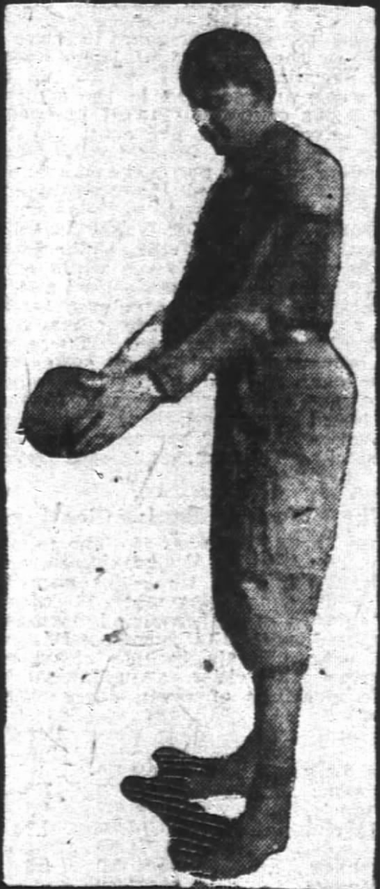 Furman fullback A. T. Sublett punting a football